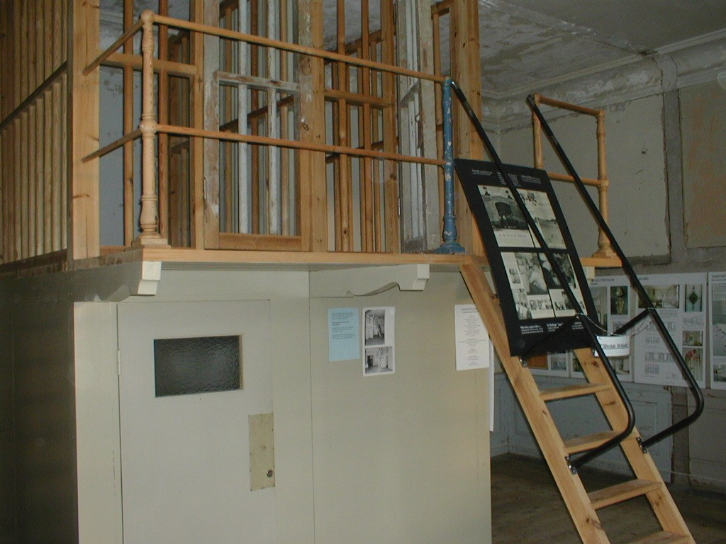 A reconstruction of a prison cell in Svartsjö castle on display